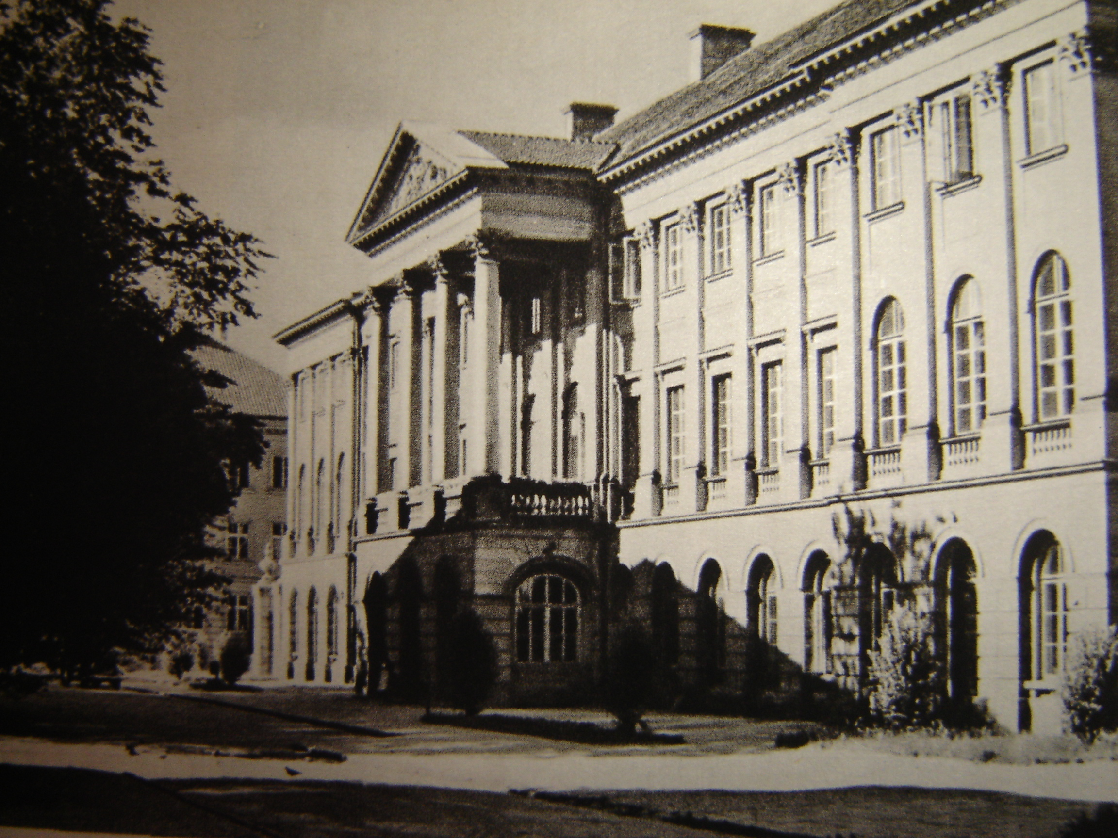 Kazimierzowski Palace, seat of the rector and the rectorate of the University of Warsaw, in 1964.